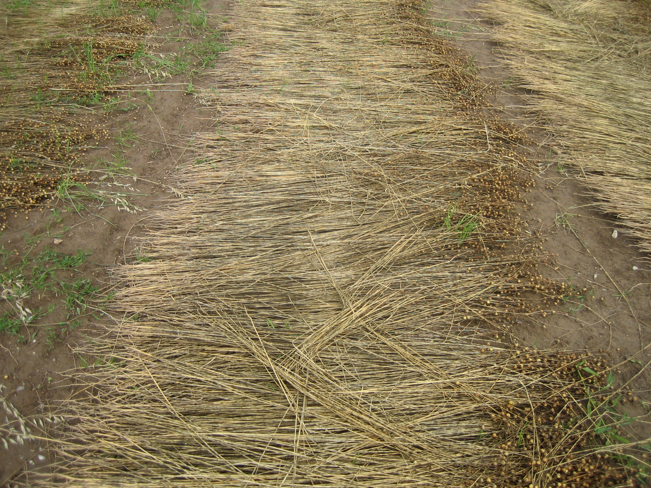 Flax field near Fécamp, Département Seine-Maritime, Region Haute-Normandie, France.